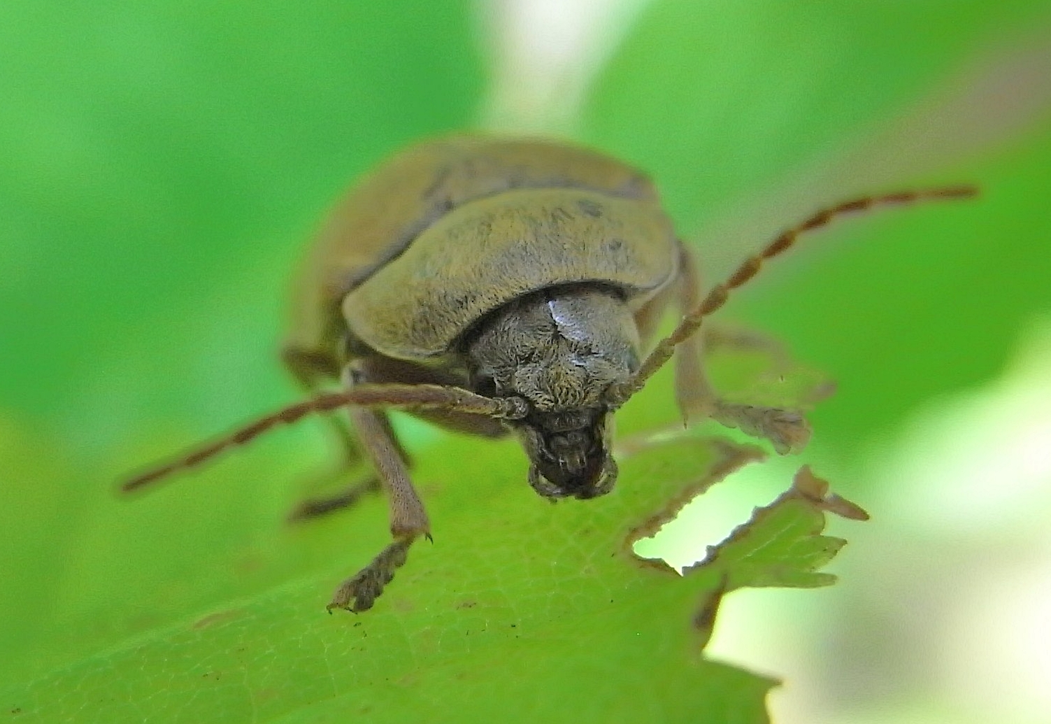 Dascillus cervinus from Hungary, near Repashuta at 2010-06-20 Ricoh R8